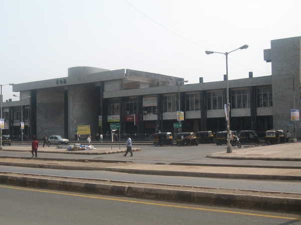 Only the photo was taken by self. The railway station was created by CIDCO as is the norm in Navi Mumbai. There are three huge hoardings which are a real eye sore in front of this nice building. The angle of the photo shot has to be so adjusted to avoid these hoardings. User:Staeckerbot/Duplicate-file-info